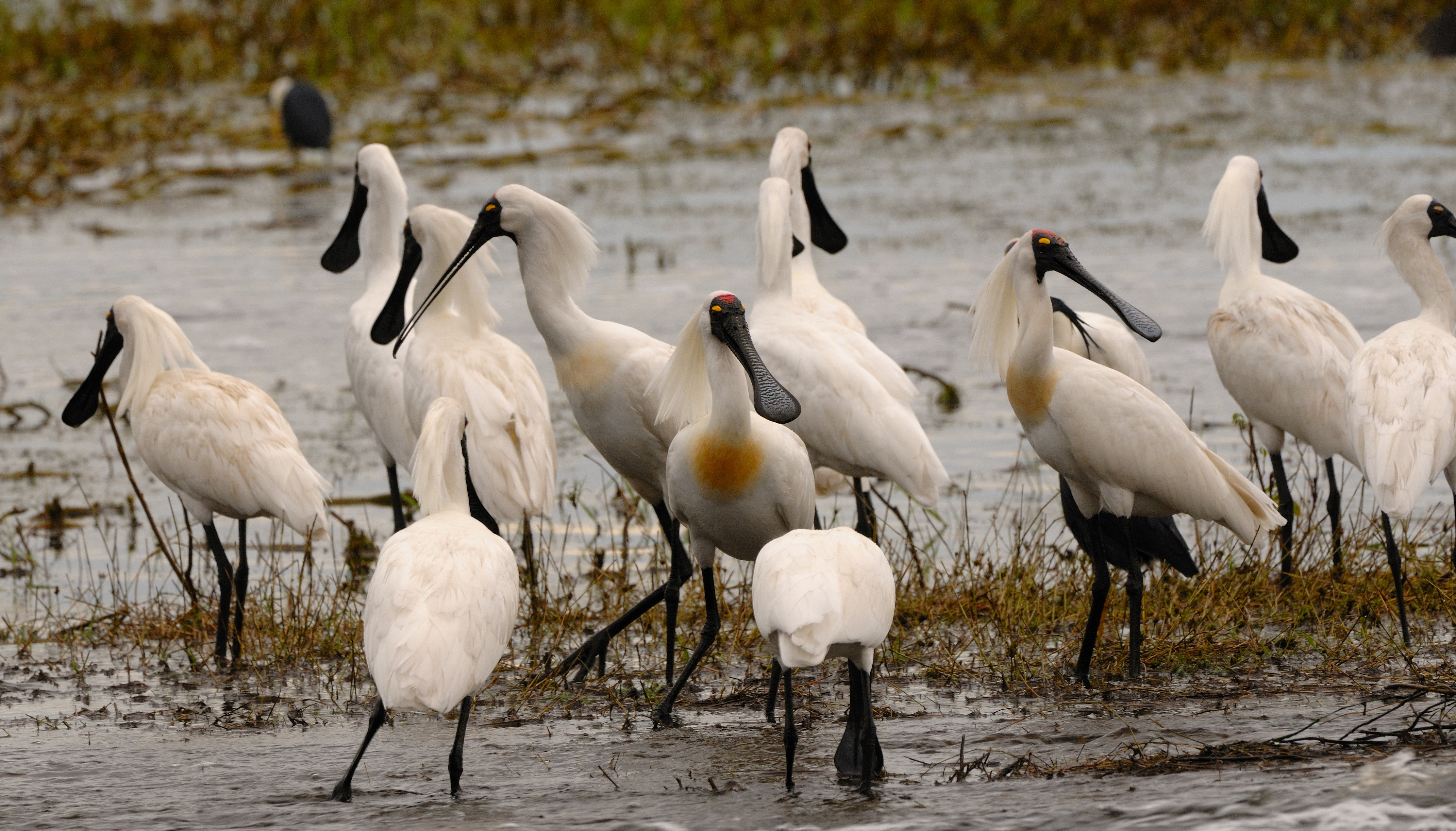 Royal Spoonbills (Platalea regia) at Fogg Dam, Northern Territory Australia